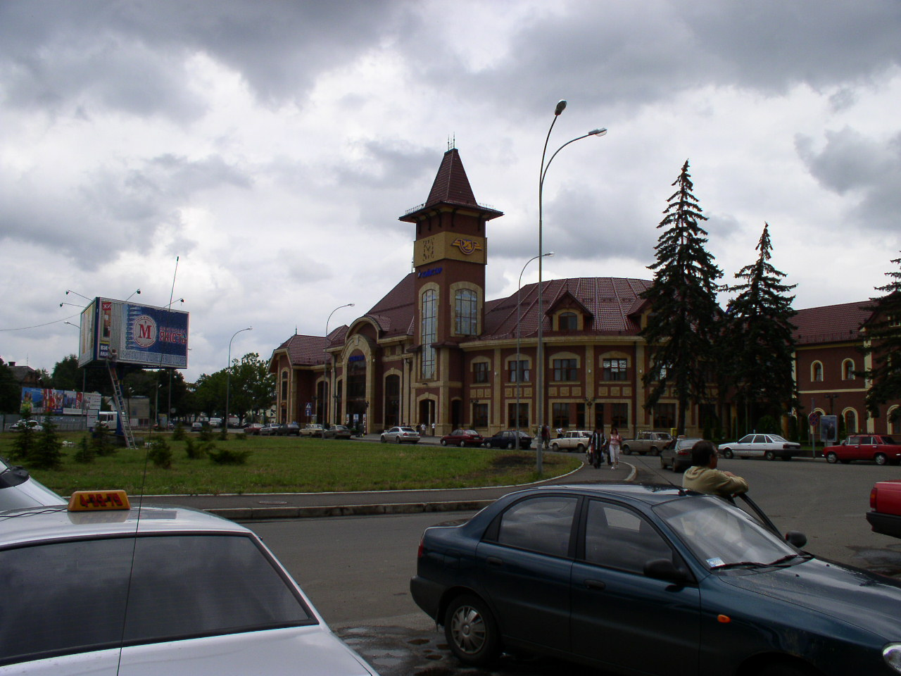 Railway station. Uzhhorod, Ukraine.